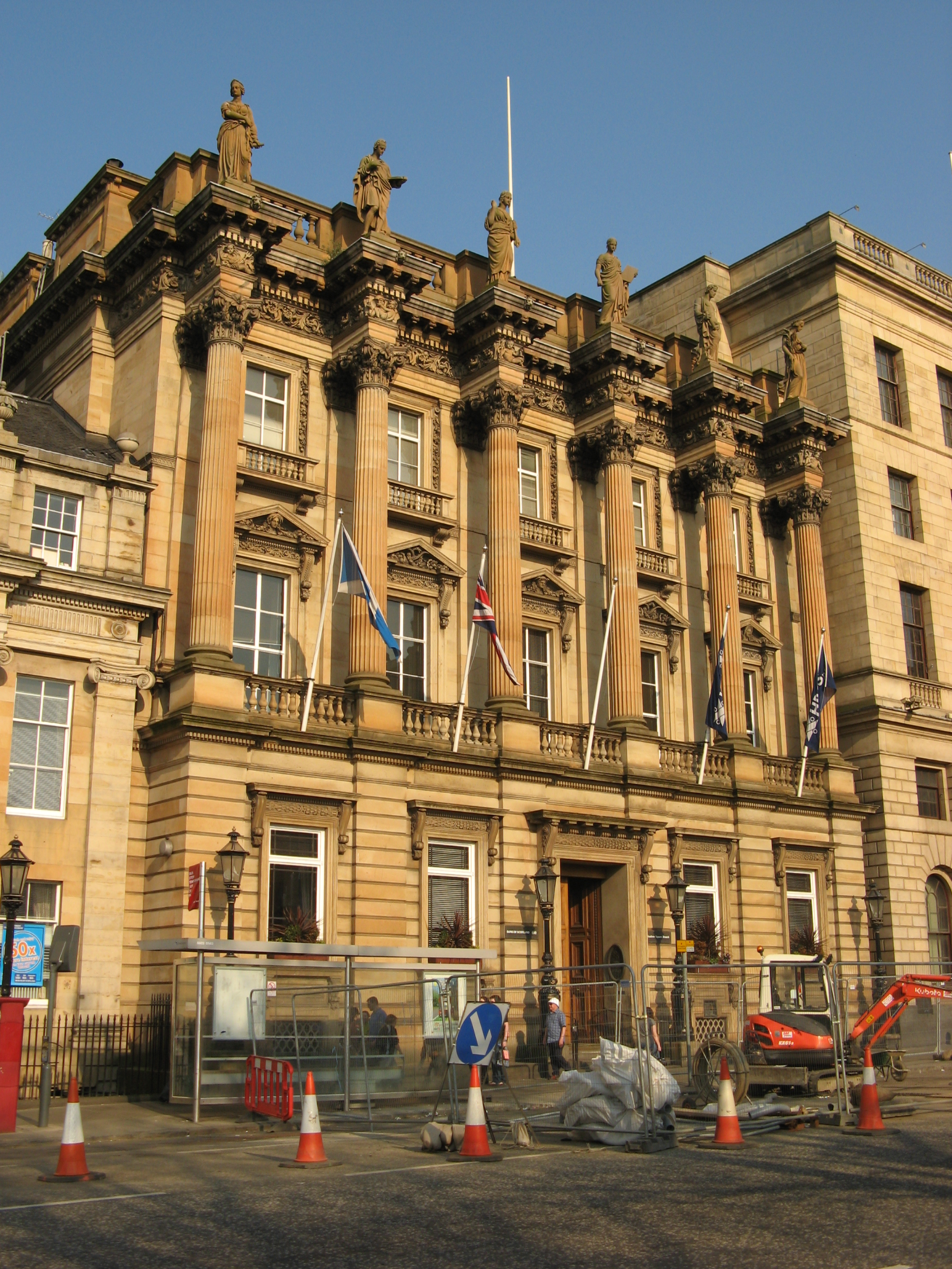 Bank of Scotland, St Andrew Square, Edinburgh. Designed by David Bryce, and built 1846 for the British Linen bank. Statuary by Alexander Handyside Ritchie.